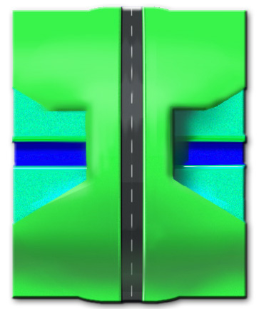 Very simplified block diagram of a écoduc (wildlife crossing) with multiple streams (from both sides of the road, a watercourse, and under the road), designed vith "diabolo" form. In reality; additional arrangements, adapted to animals and organisms we wish to see, are made through this type of fauna passages. (With trees, bushes, ponds, rocks, dead wood, etc.. To "reassure" the animals and allow them to hide or move silently). This type of passage is ideally not open to the public because human scent or the scent left by dogs can scare away some animals. Protection to limiting noise and artificial lighting, light beams or headlights could ideally installed along the upper portion.